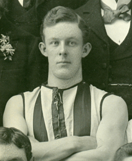 Photograph of Fred Leach in 1901.